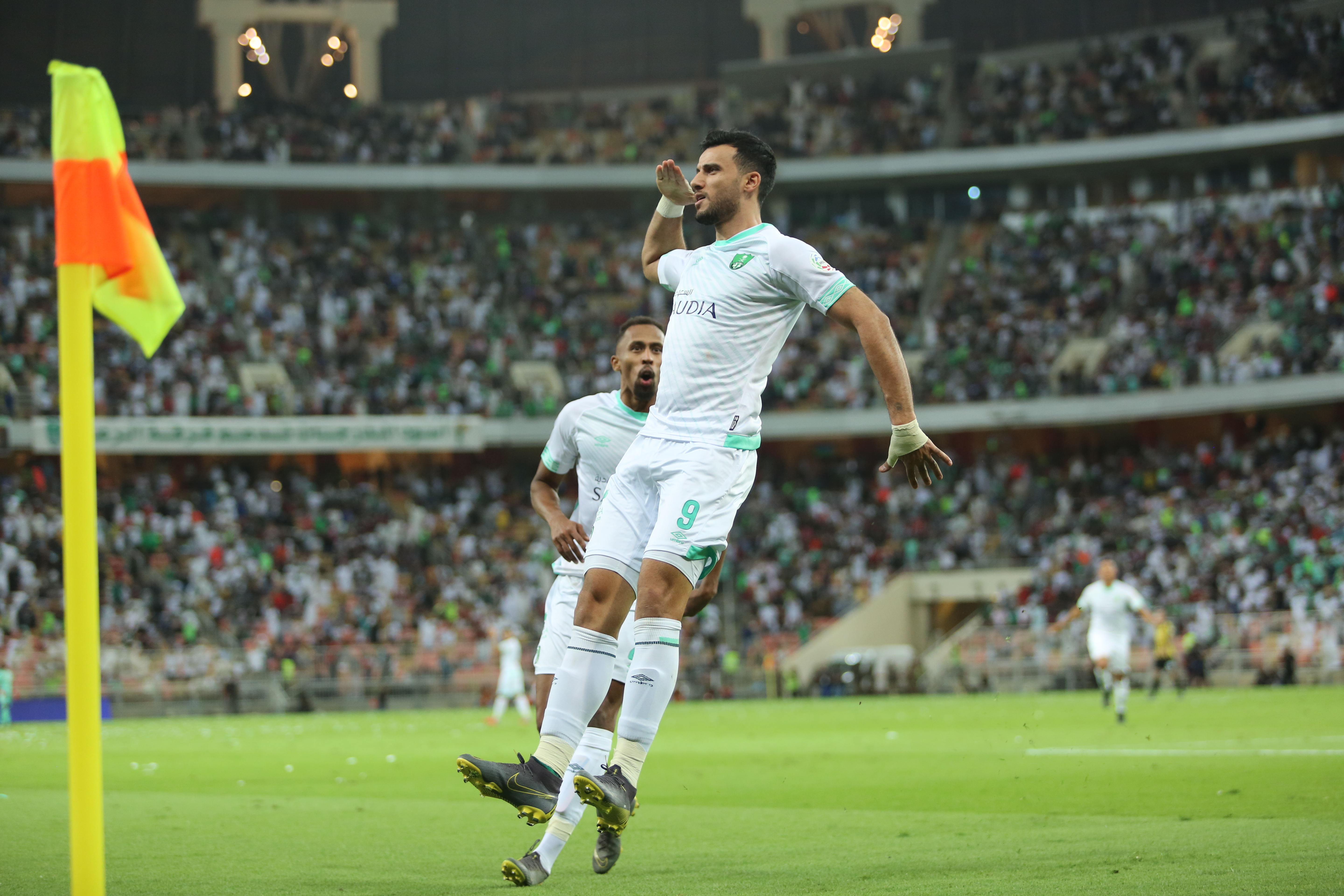 Somah